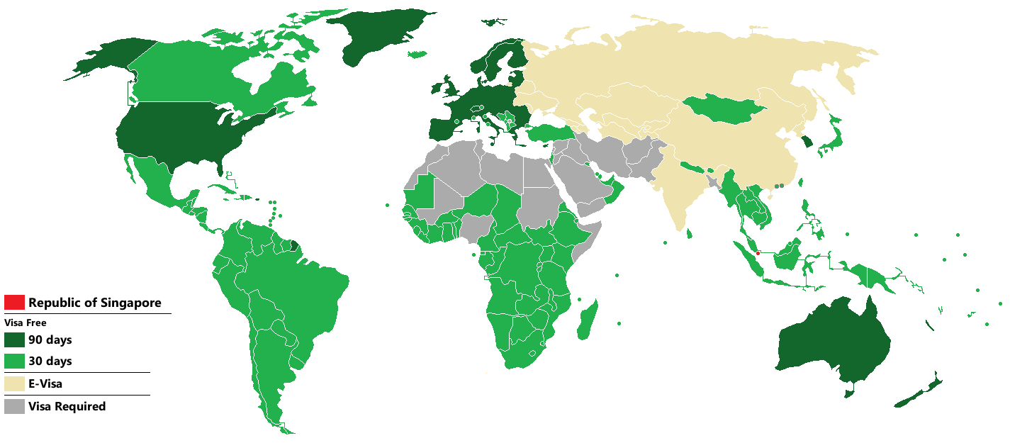 Visa policy of Singapore Singapore Visa Free (90 days) Visa Free (30 days) E-Visa Visa Required